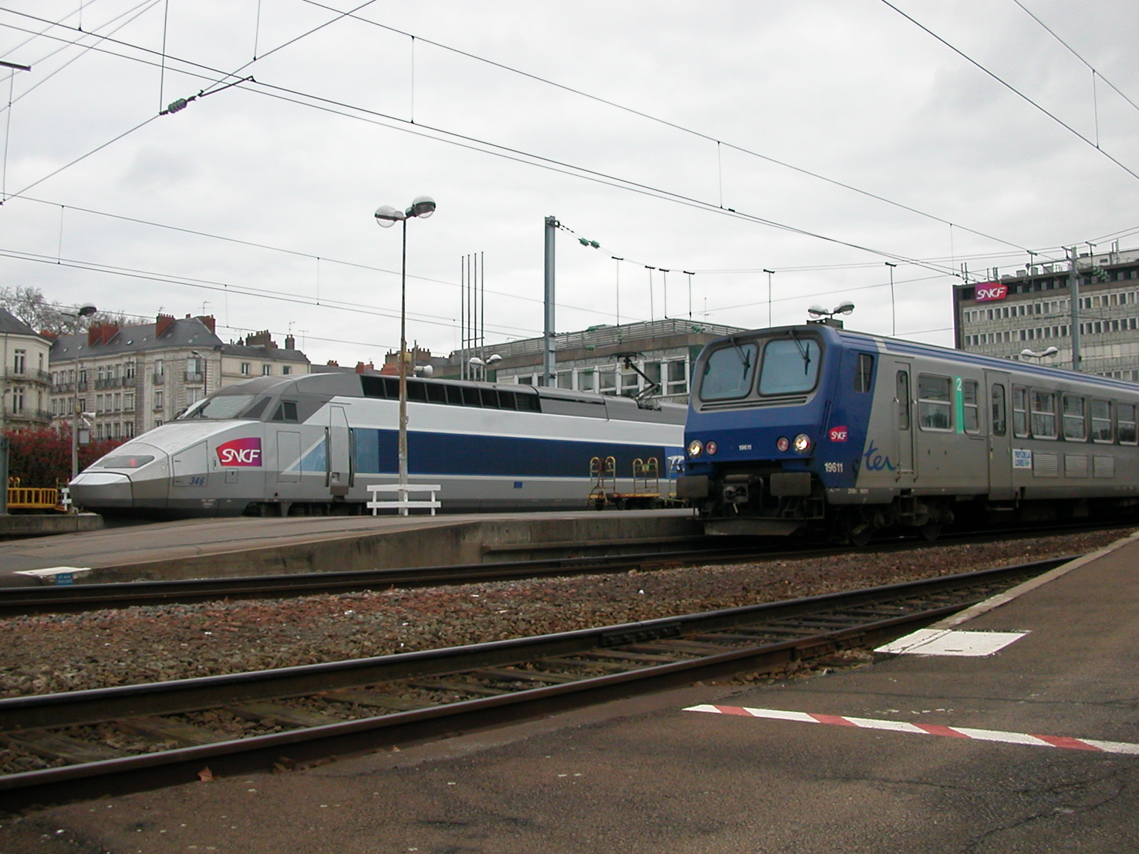 TGV and regional train (type Z2) in Nantes' station